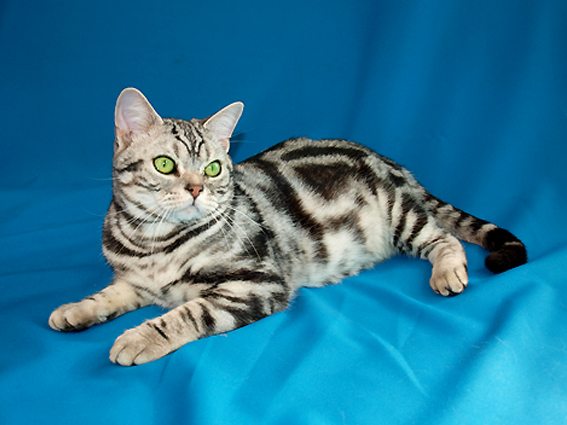 American shorthair cat Romeo from Stalker-Bars cattery